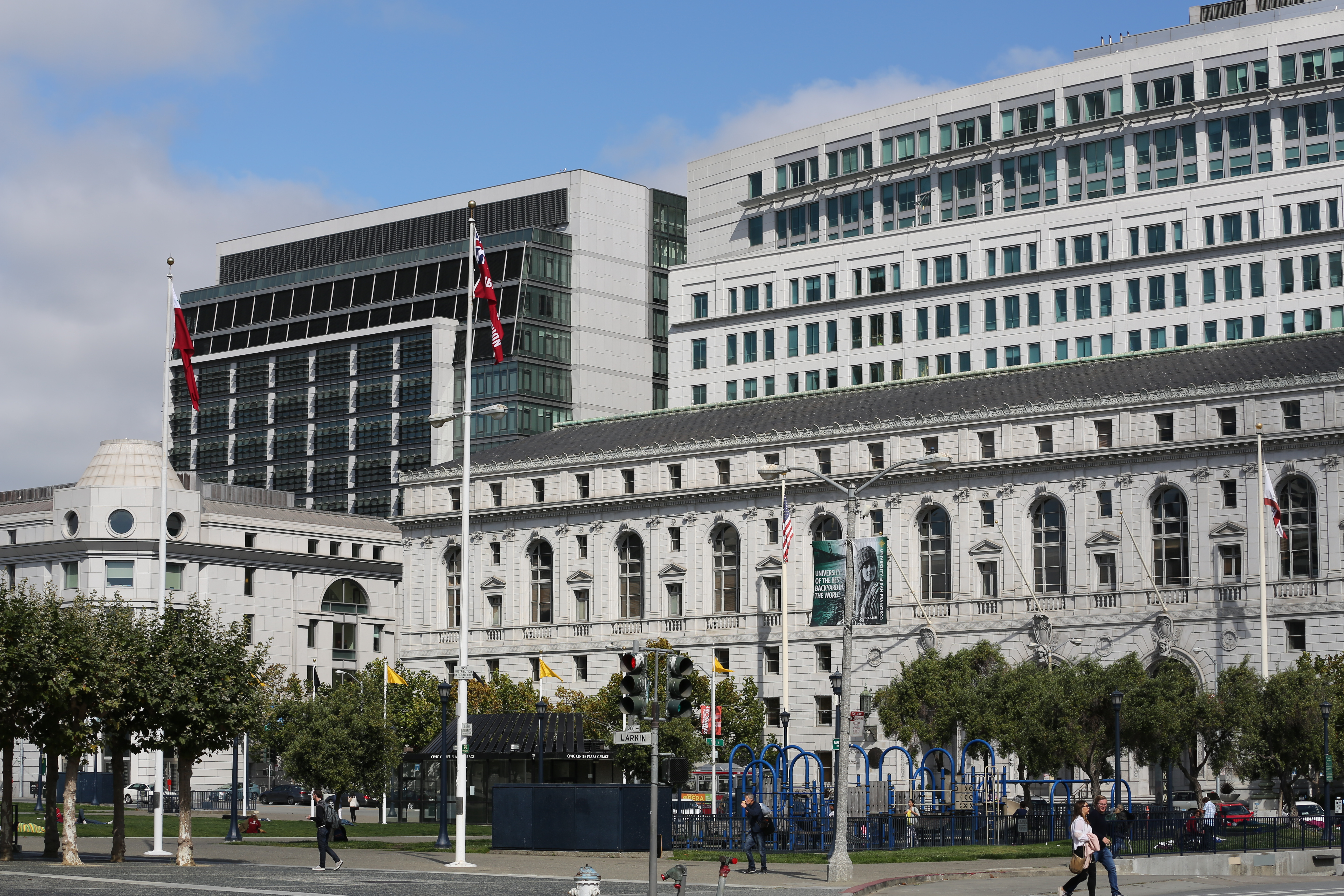 Supreme Court of California - California State Building, San Francisco